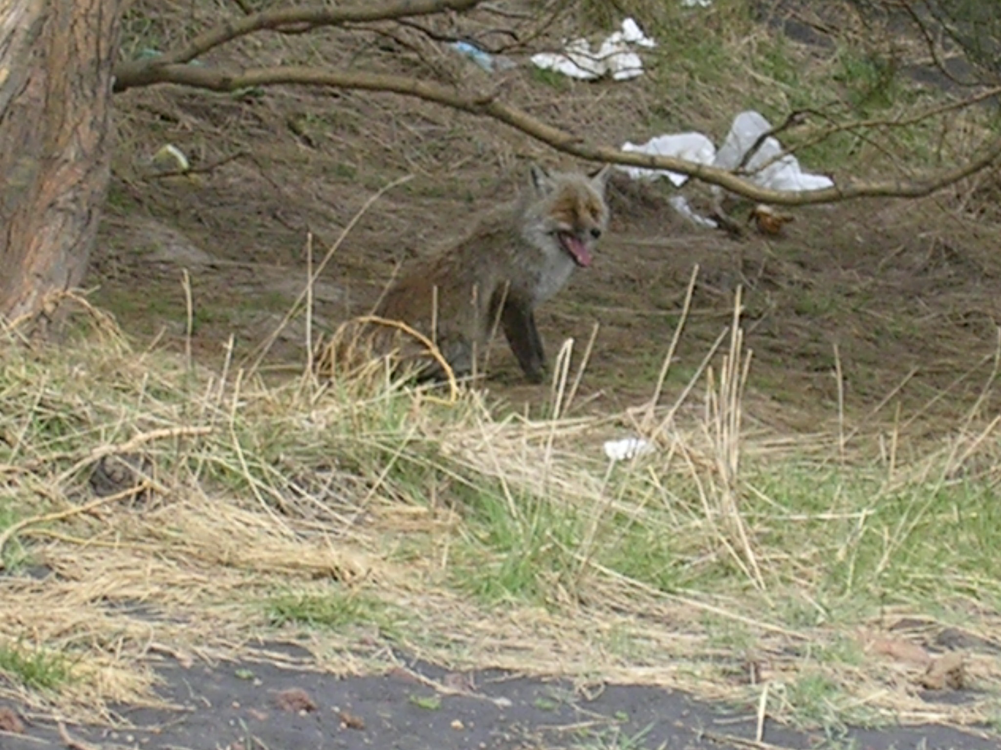 Fox on Etna (Sicily), near Rifugio Sapienza